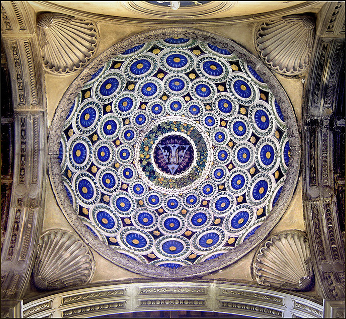 inside view of the Dome hidden in the portico of Cappella dei Pazzi, Florence, Italy.